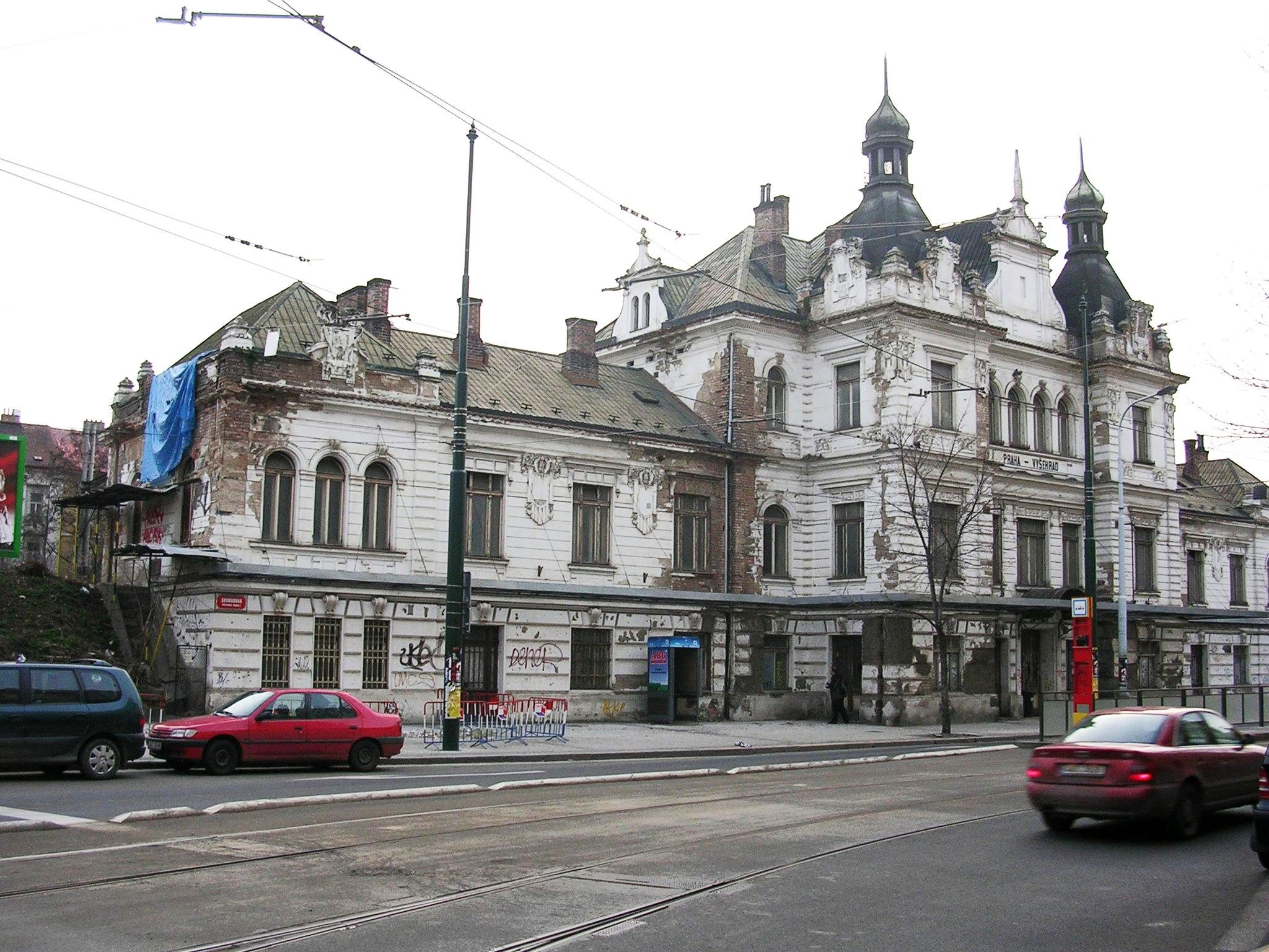 Vyšehrad, Prague, the Czech Republic. Former train station Praha-Vyšehrad.